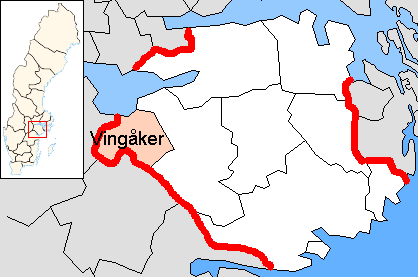 Vingåker Municipality in Södermanland County Designd by me, based on Image:Södermanland County.png